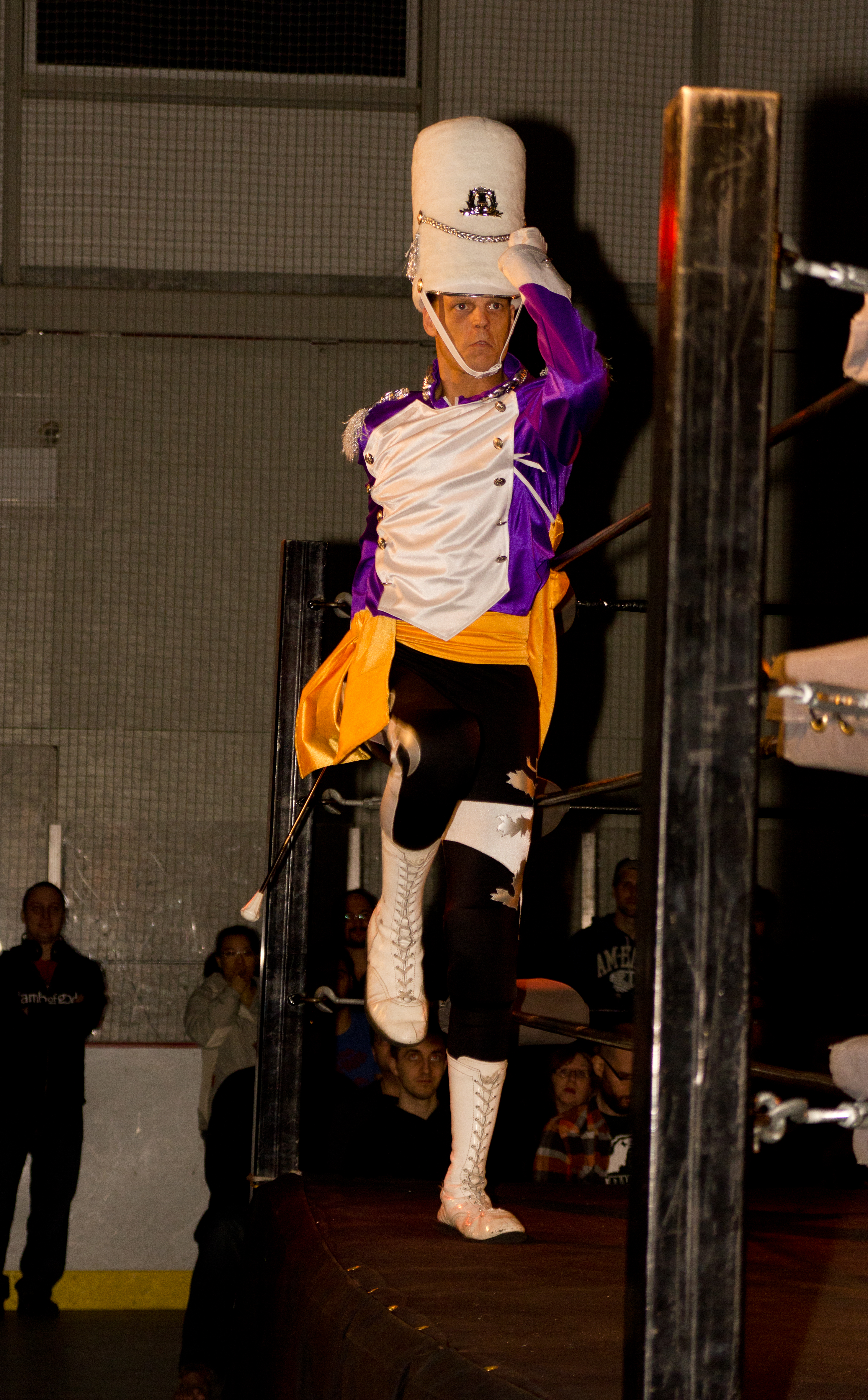 Professional wrestler Archibald Peck at a Chikara event.